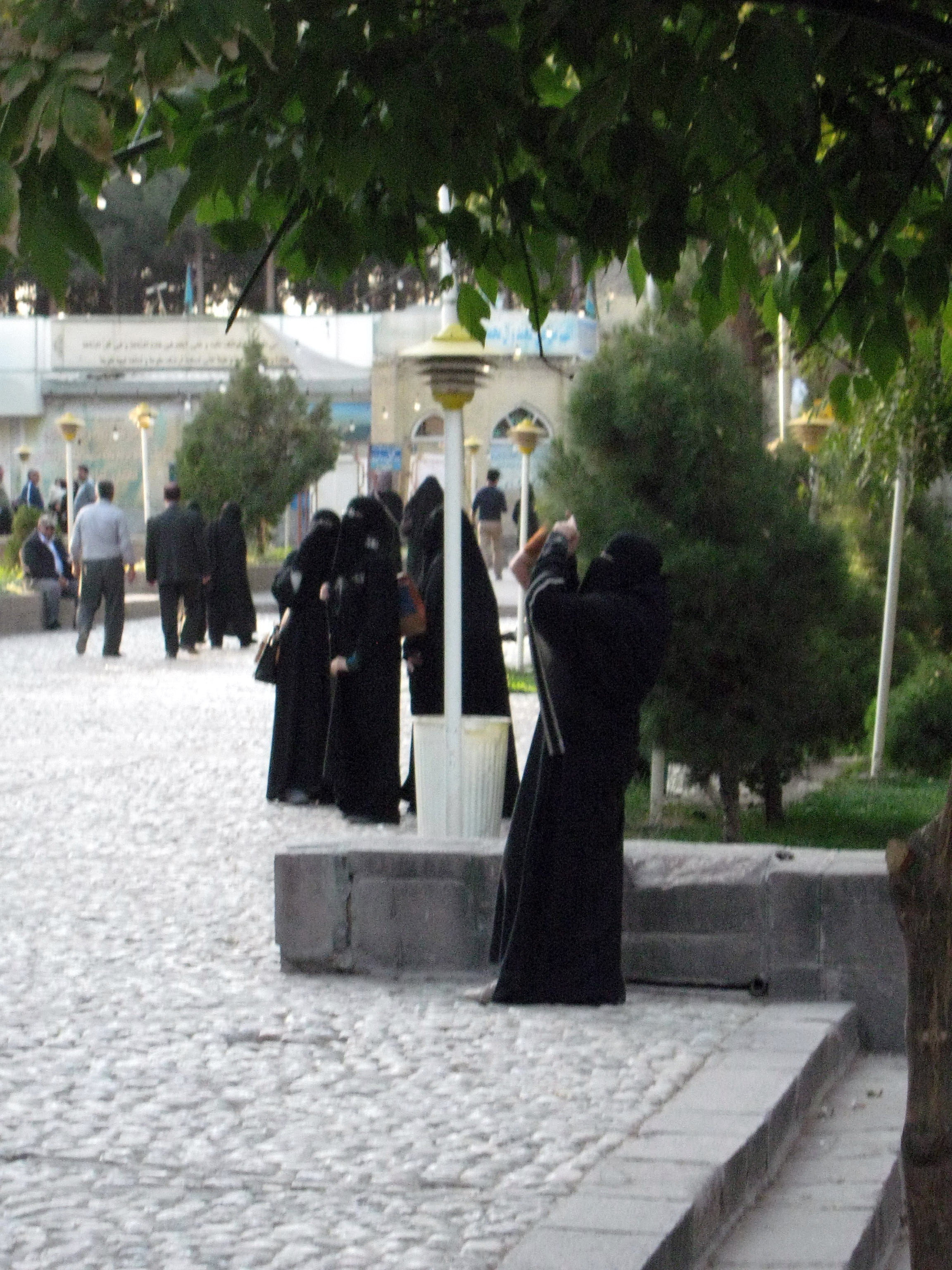 Saudi Arabian woman with Burqa taking photo from Mosque of Mohammad al Mahruq - Nishapur 1